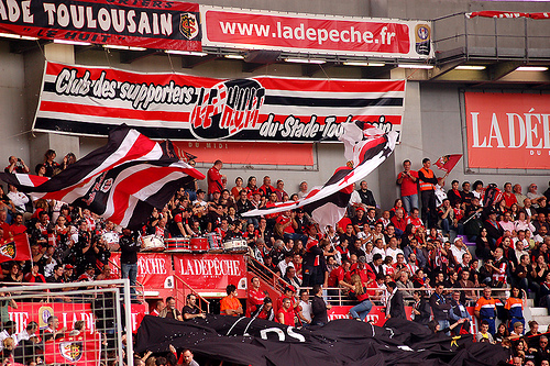 Flags everywhere - Bath Rugby v Stade toulousain - 12 October 08 - Heineken Cup